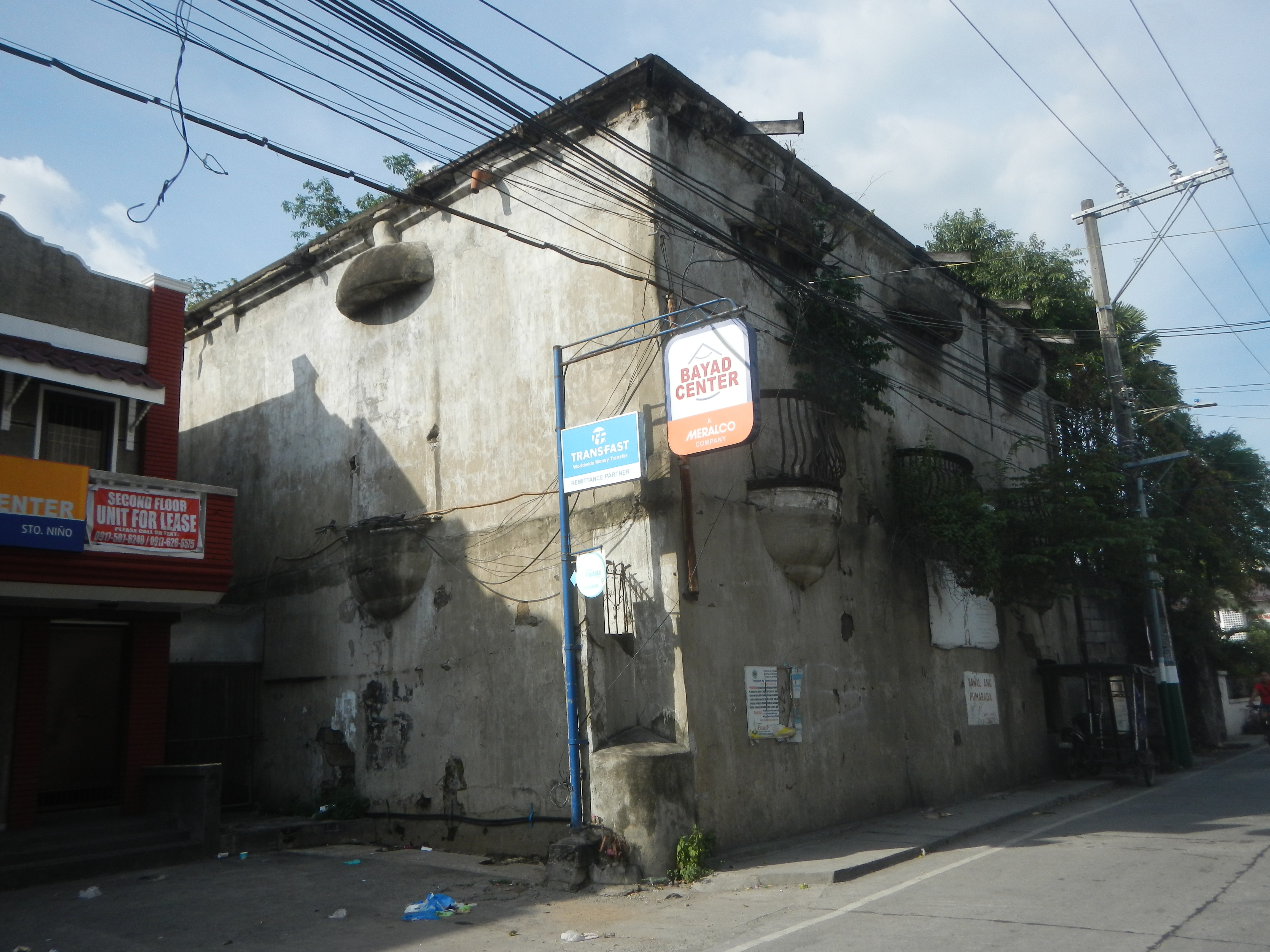 Malolos Historic Town Center and Heritage District of Barangay Santo Niño 14°50'33"N 120°48'38"E, Malolos City, Bulacan (Note: Judge Florentino Floro, the owner, to repeat, Donor Florentino Floro of all these photos Judge Floro hereby donate gratuitously, freely and unconditionally all these photos to and for Wikimedia Commons, exclusively, for public use of the public domain, and again without any condition whatsoever).